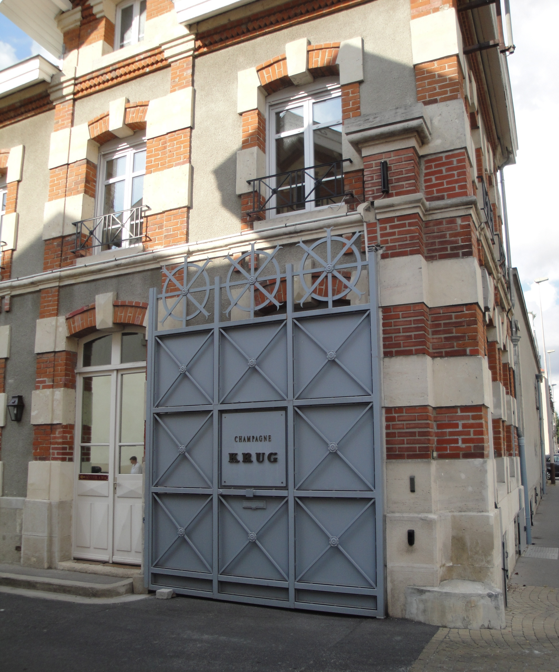 Entrance gate to Champagne Krug's facilities in Reims